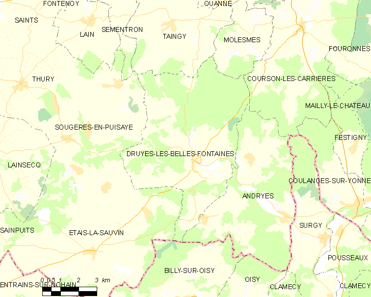 Map of French municipality Druyes-les-Belles-Fontaines